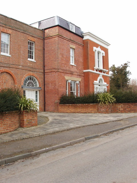 Clare Hall Manor, Ridge. Part of the London Research Institute of Cancer Research UK. Clare Hall manor was renovated in 1998 to provide a restaurant, meeting rooms and accommodation. See the Cancer Research website